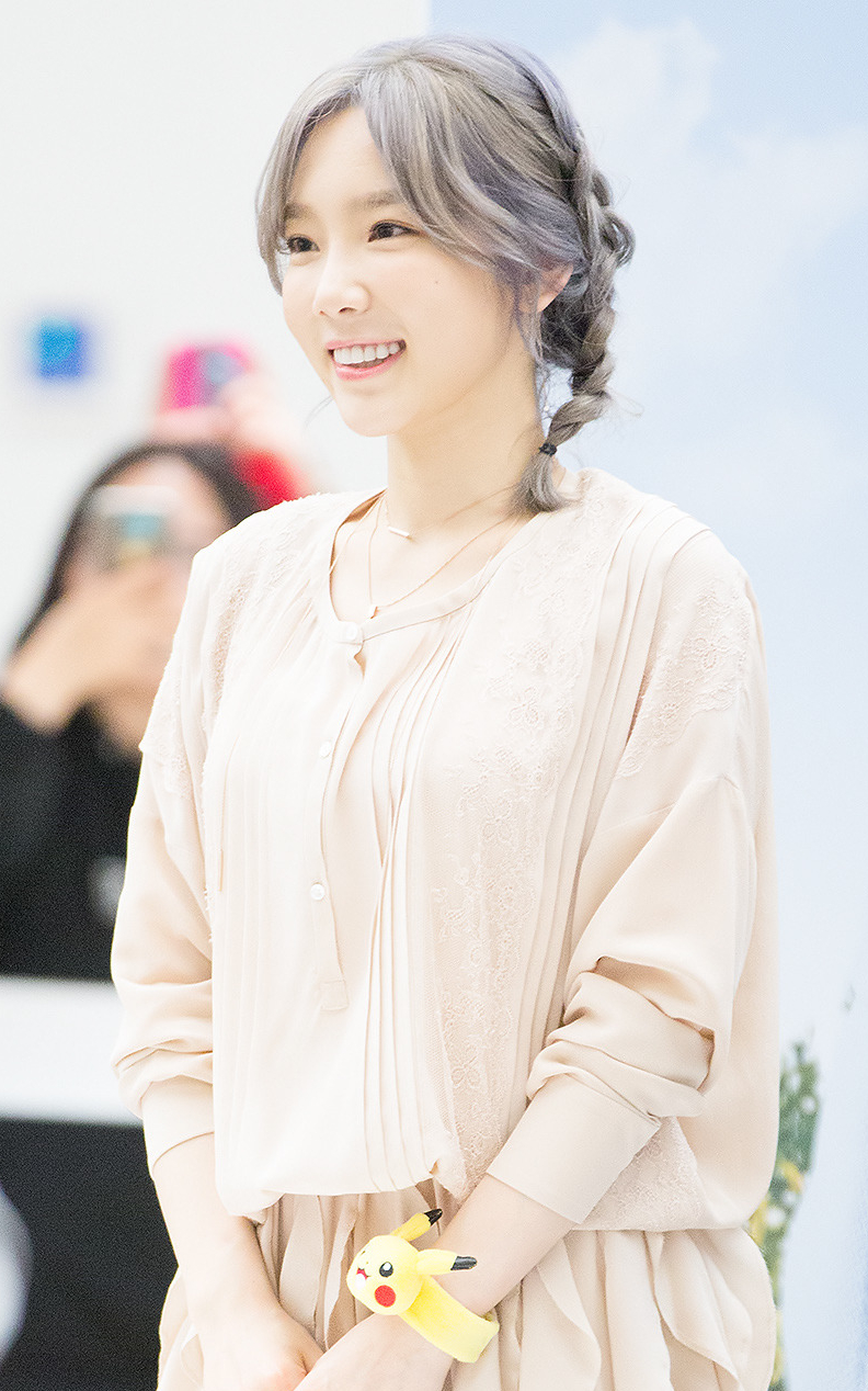 Kim Tae-yeon at fansigning on September 23, 2016 (4)